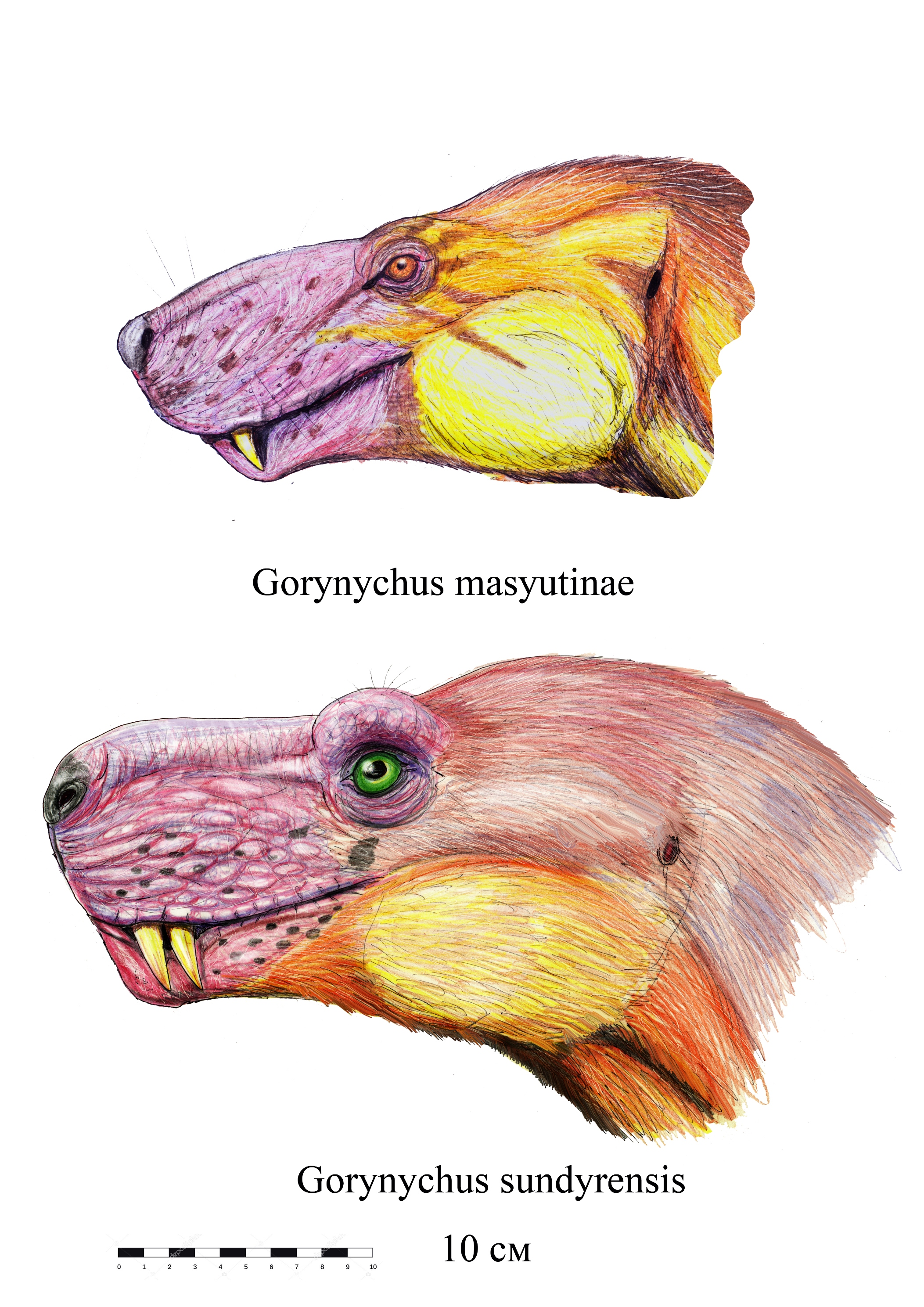 Heads of two Gorynychus species - primitive therocephalian from Russian Late Permian